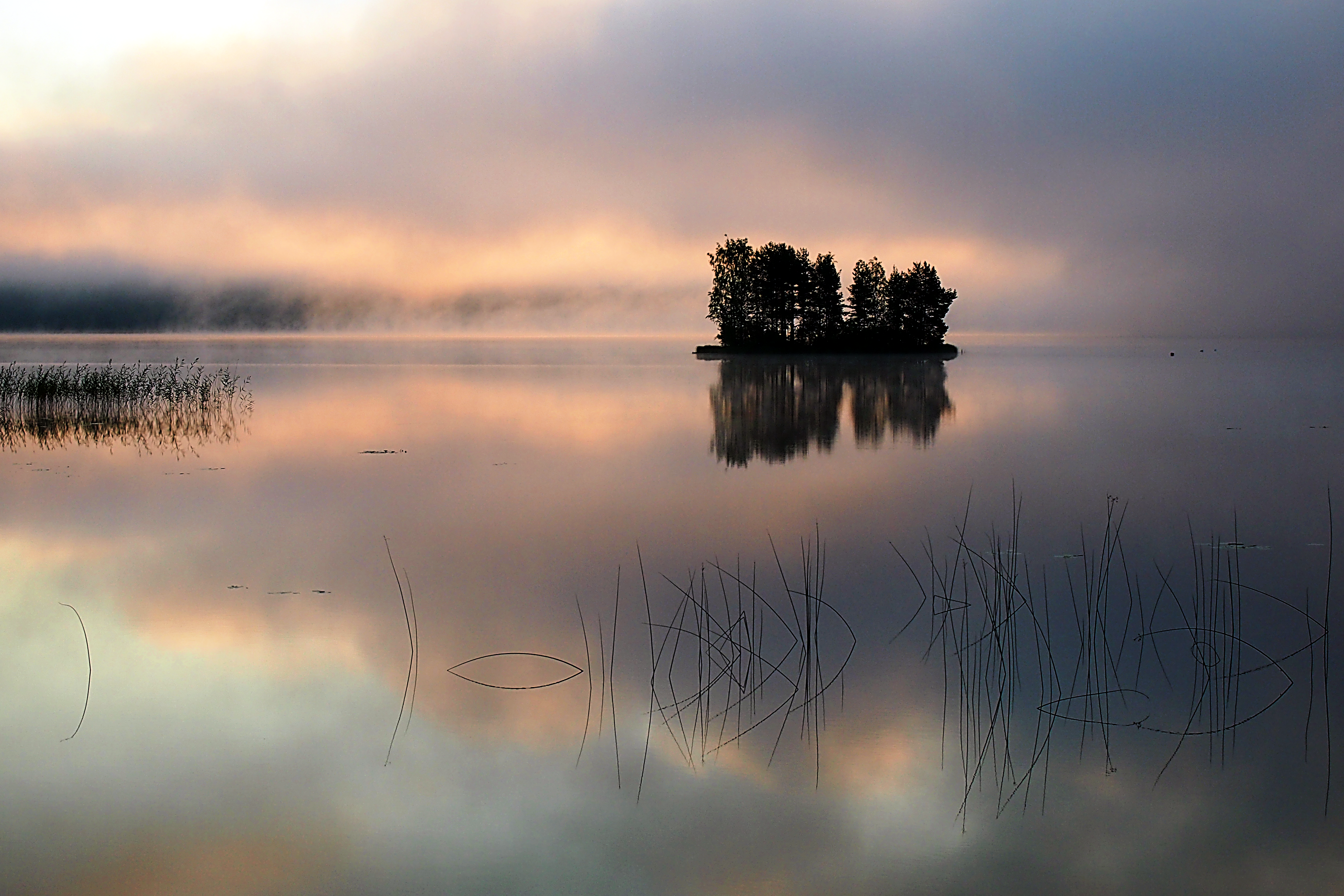 The Lake Kankarisvesi in Jämsä, Central Finland. Early morning in late July.